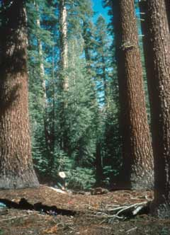 Upper montane Red Fir Abies magnifica forest.